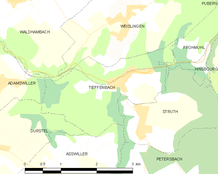 Map of French municipality